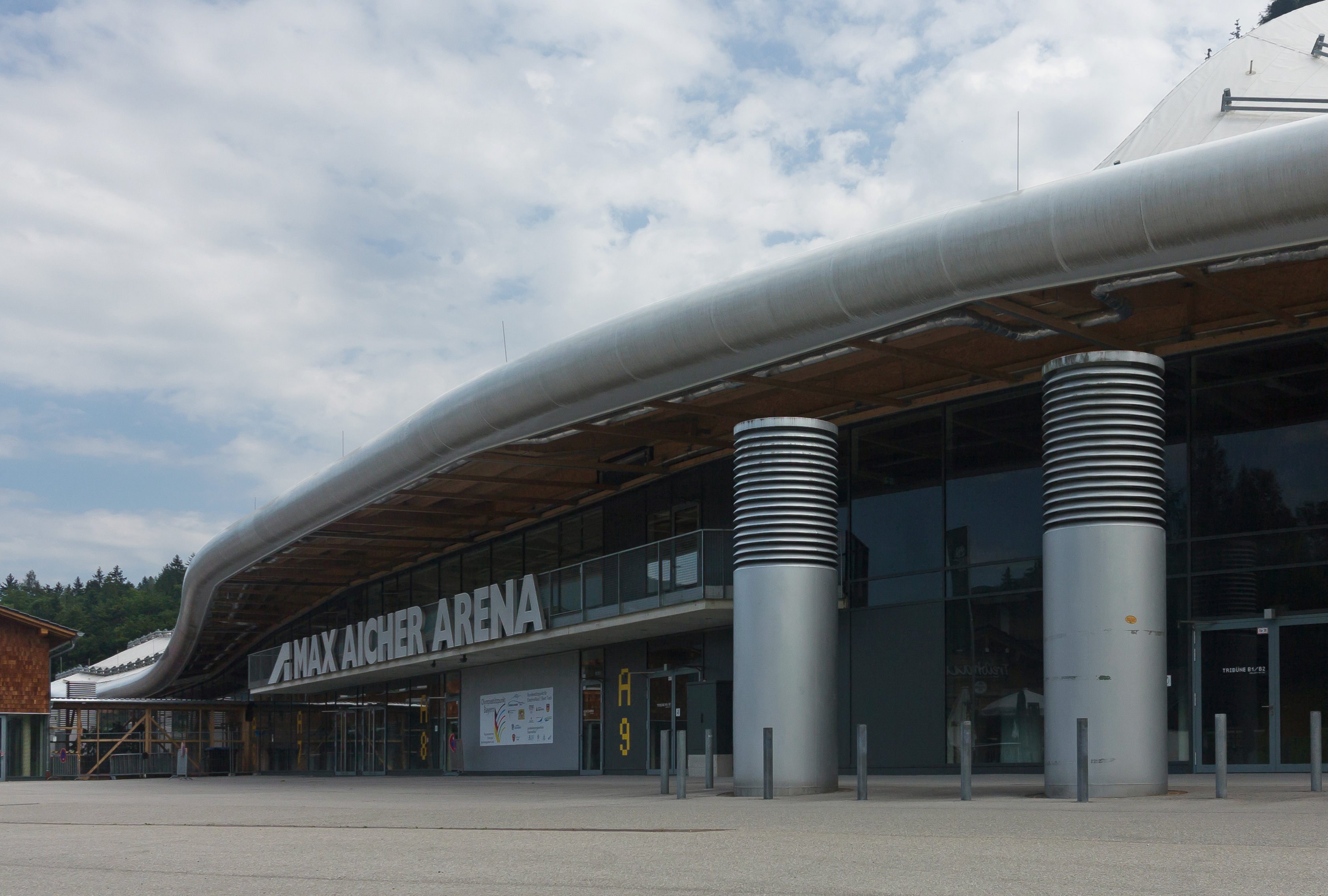 Inzell, speed skating rink: the Max Aicher Arena